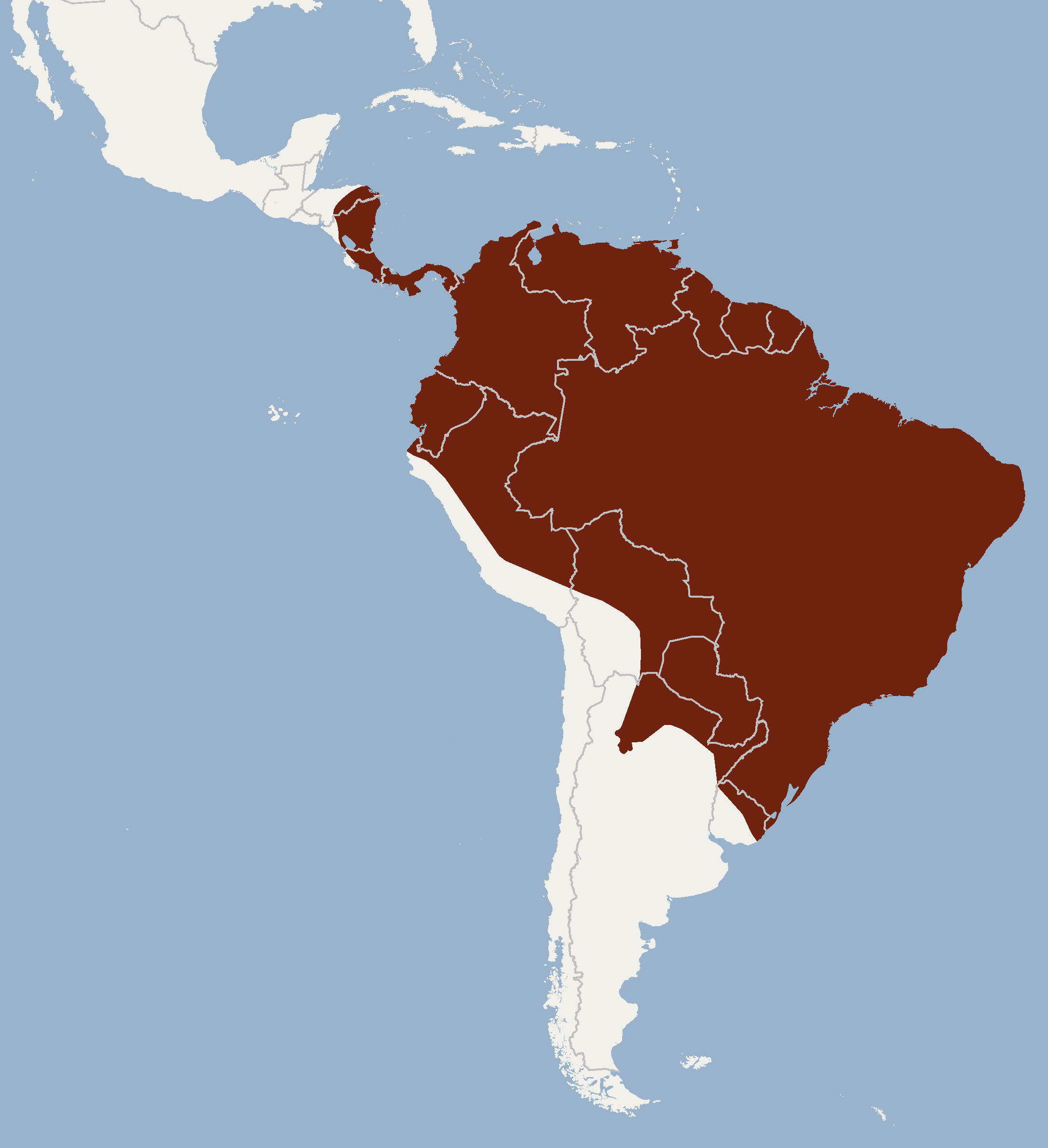 According to Reid, 2009 and Gardner, 2008